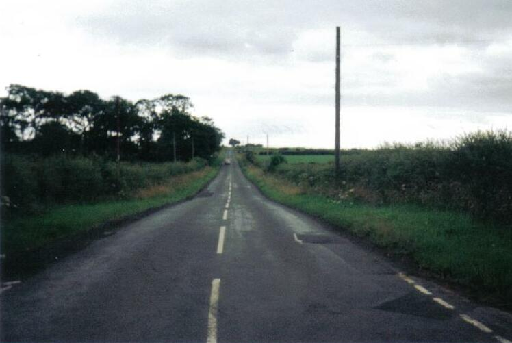 The Lambroughton brae Toll Road looking towards Cunninghamhead, with Mid Lambroughton on the left, North Ayrshire, Scotland.